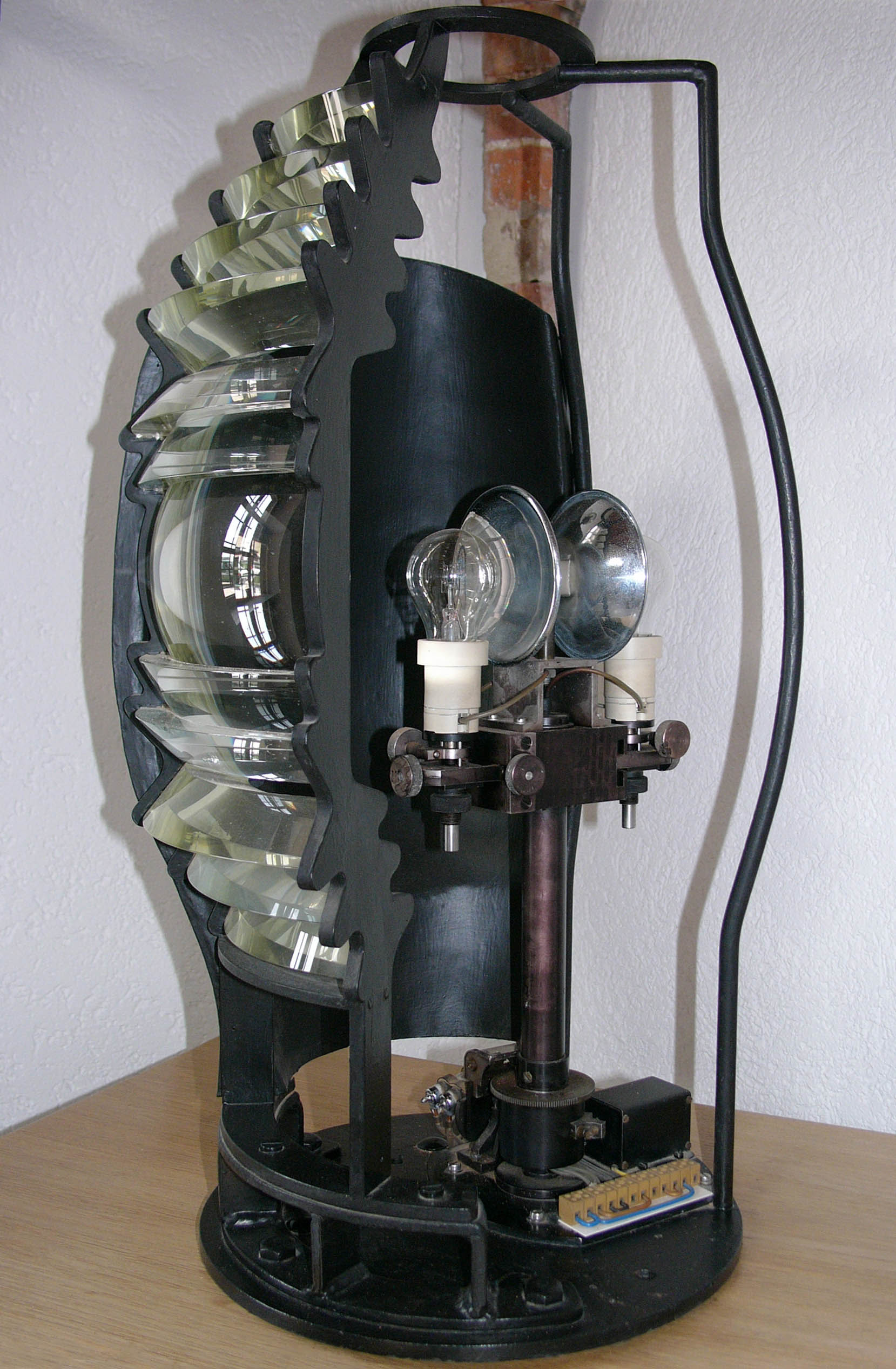 Fresnel lens of Loschen-Lighthouse in Bremerhaven, Germany